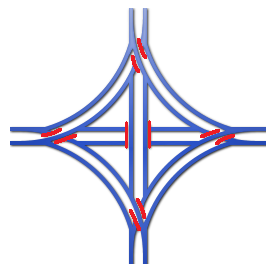 Full diamond interchange